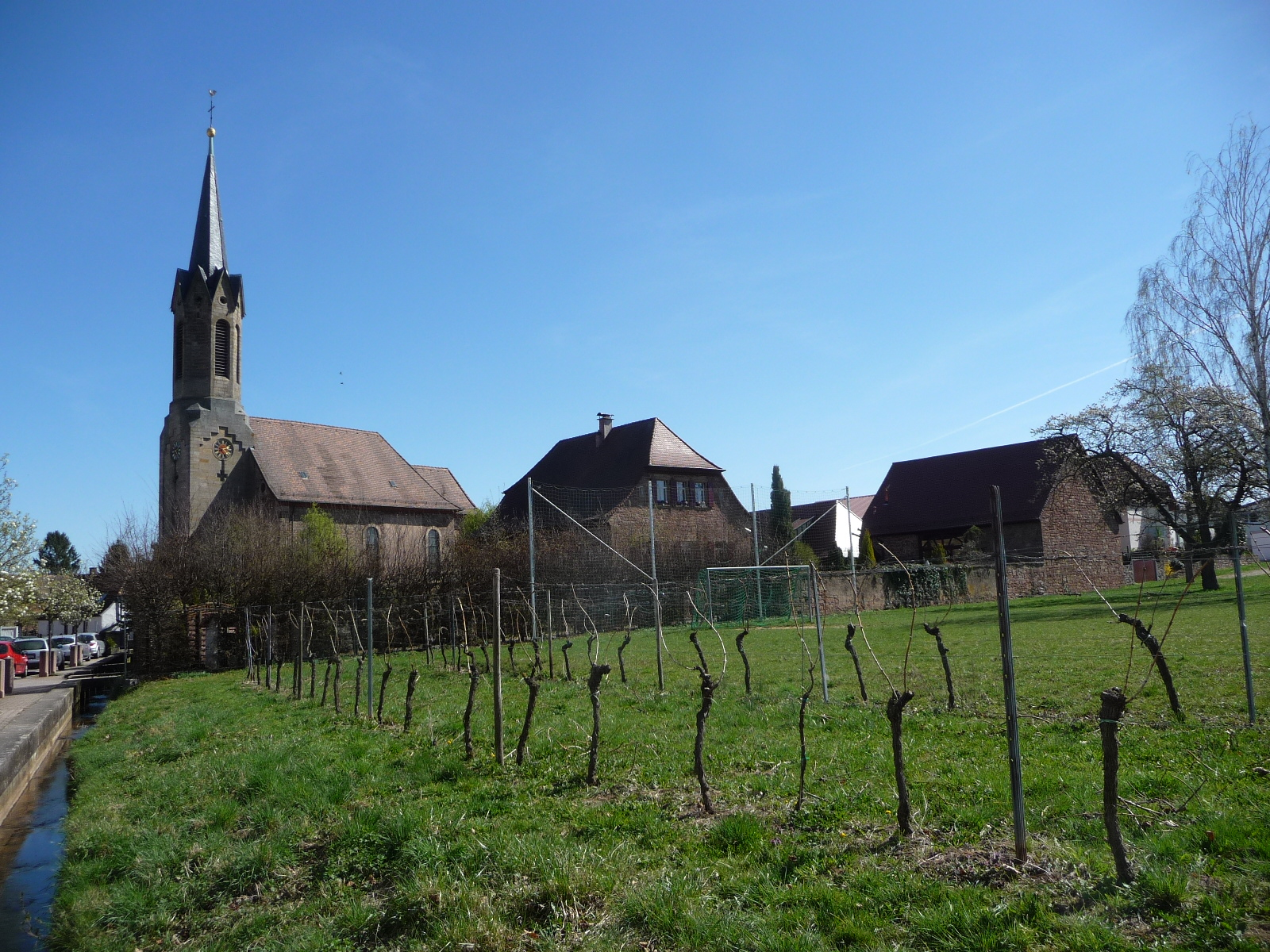 Großfischlingen in Rhineland-Palatinate, Germany